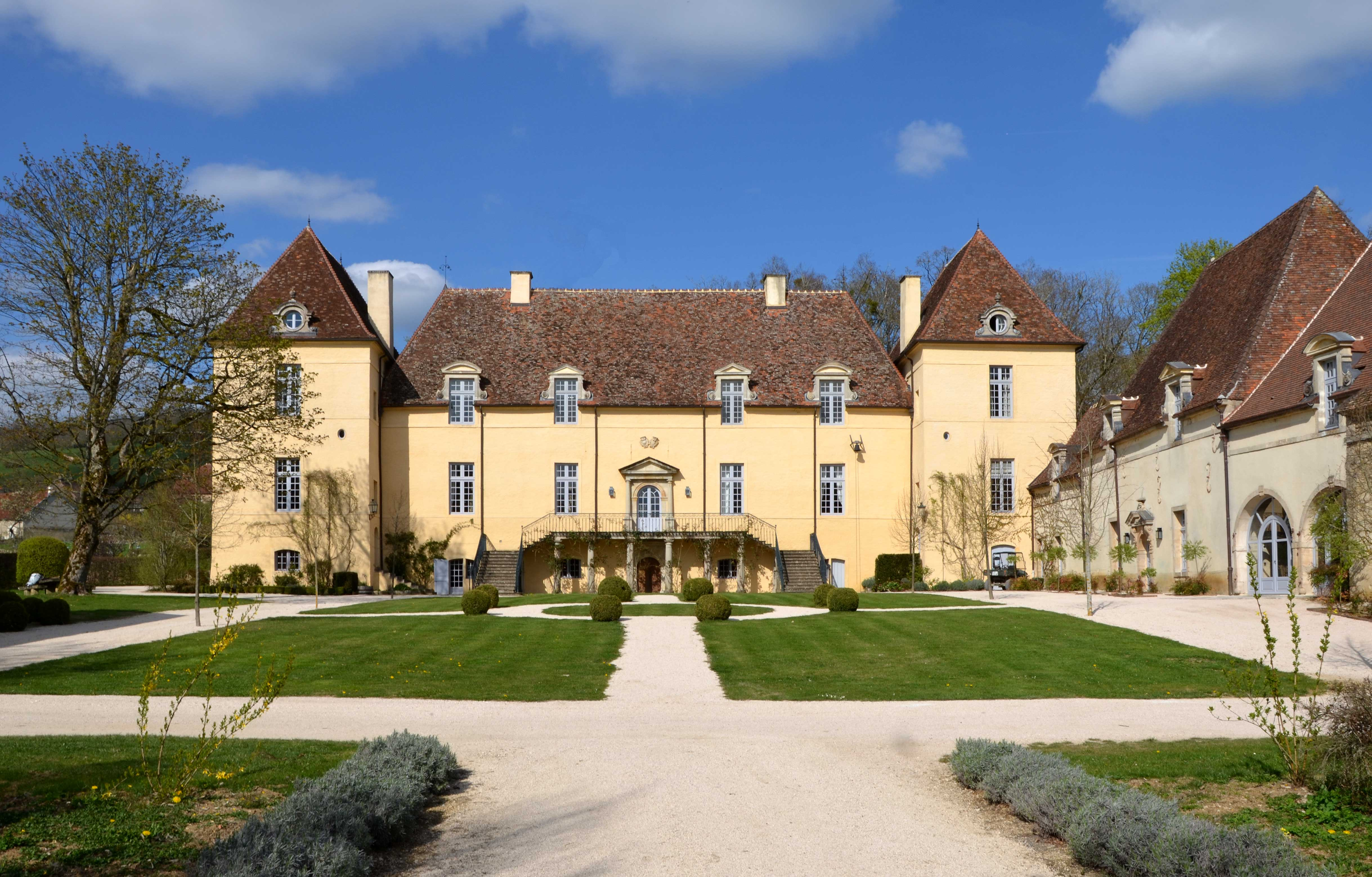 Castle at Créancey, Côte d'Or, Bourgogne, France